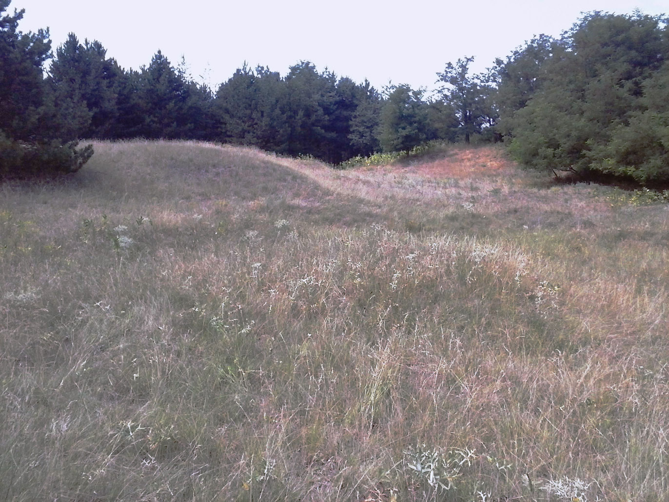 Sand dunes occupied by pioeer vegetation, at Tavankutska šuma, a forested area on Subotica Sands, Serbia